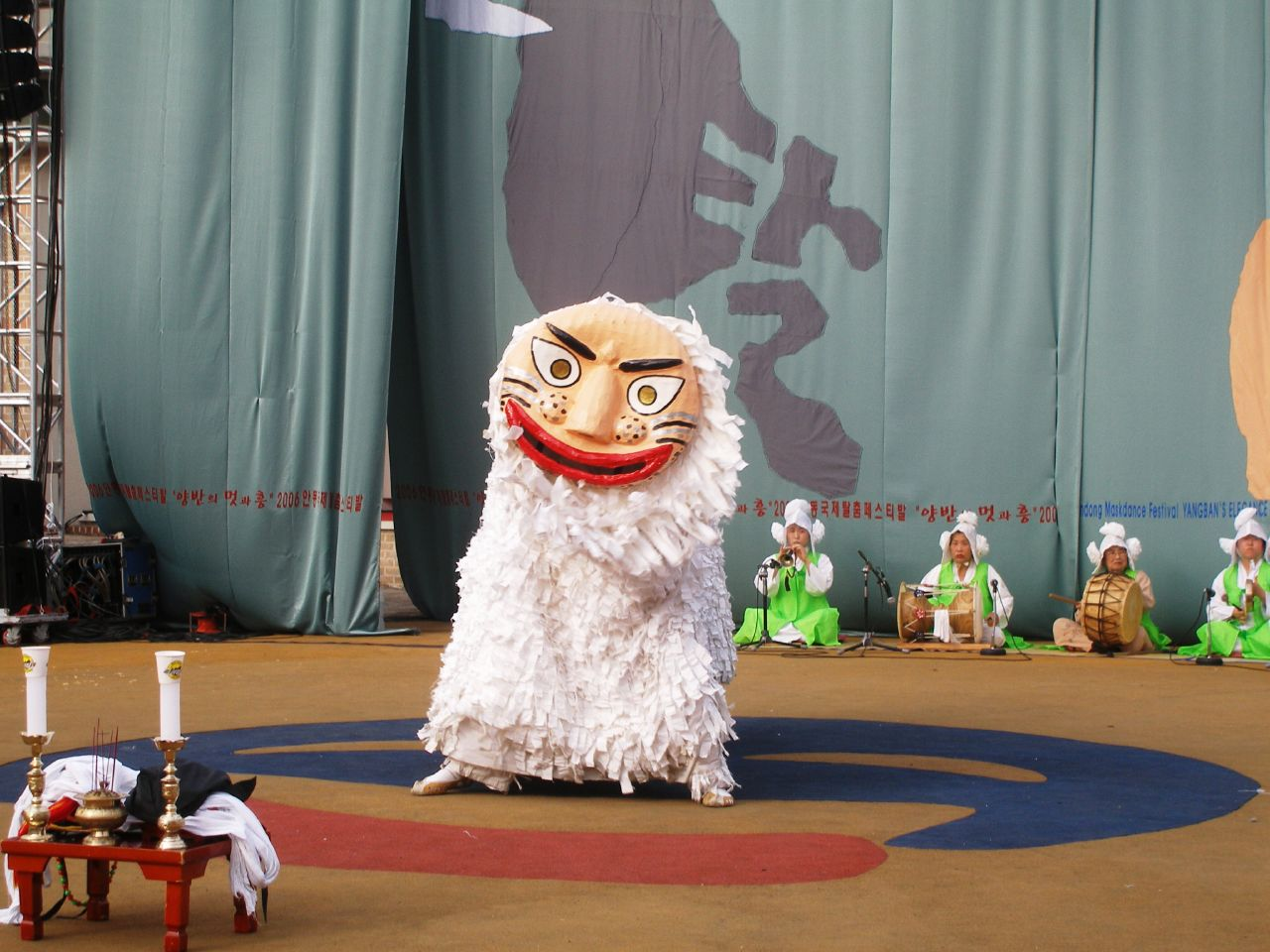 Eunyul talchum, a Korean mask dance originated in Eunyul, Hwanghae Province, now North Korea